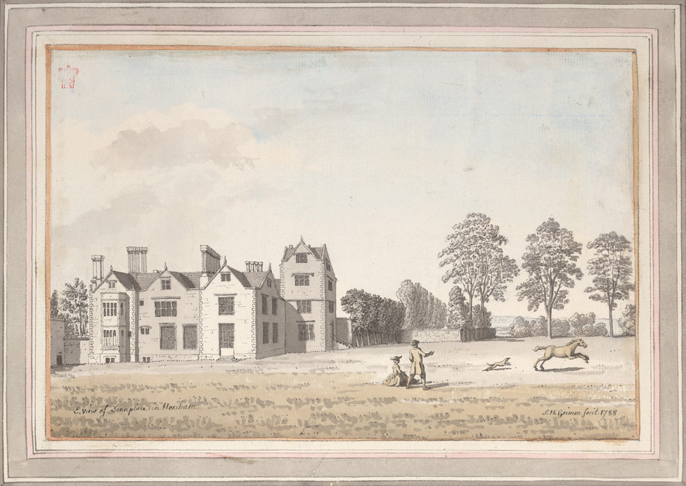 The painting shows 'Denne Park," the seat of the Eversfield Baronets, formerly of 'The Grove,' Hollington. Denne Park is near Horsham, West Sussex.